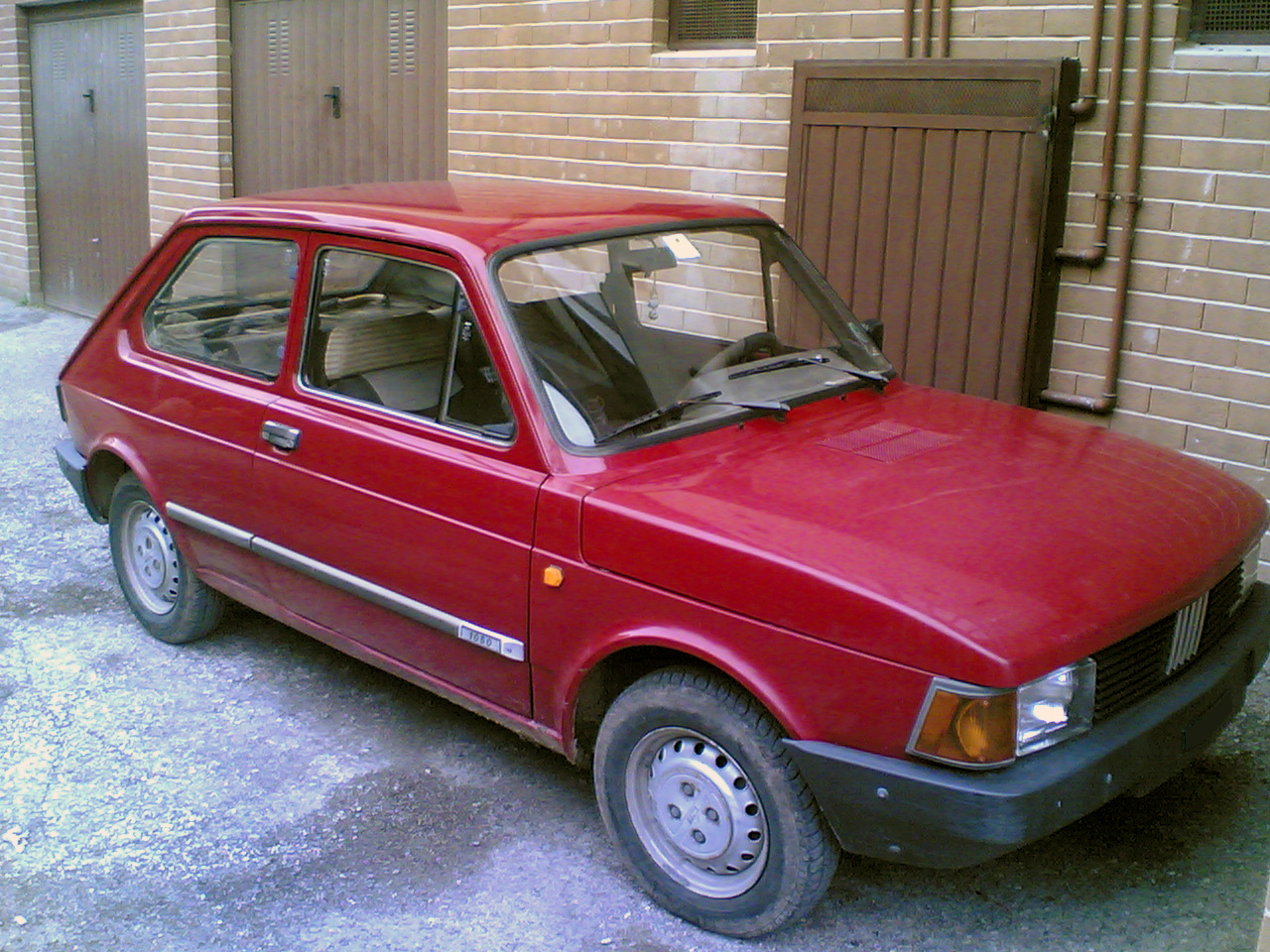 Fiat 127 year 1984